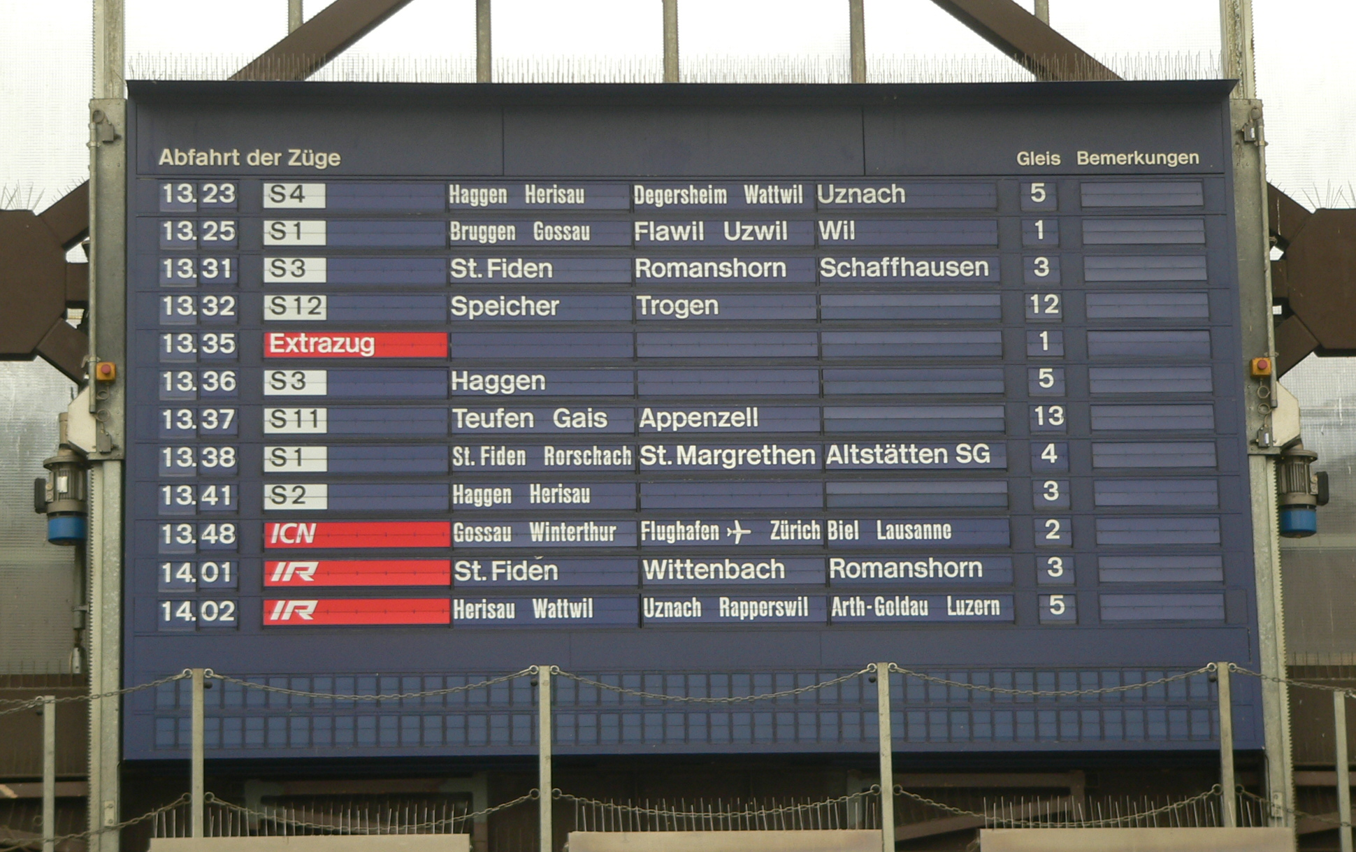 Information display of the station St. Gallen, Switzerland